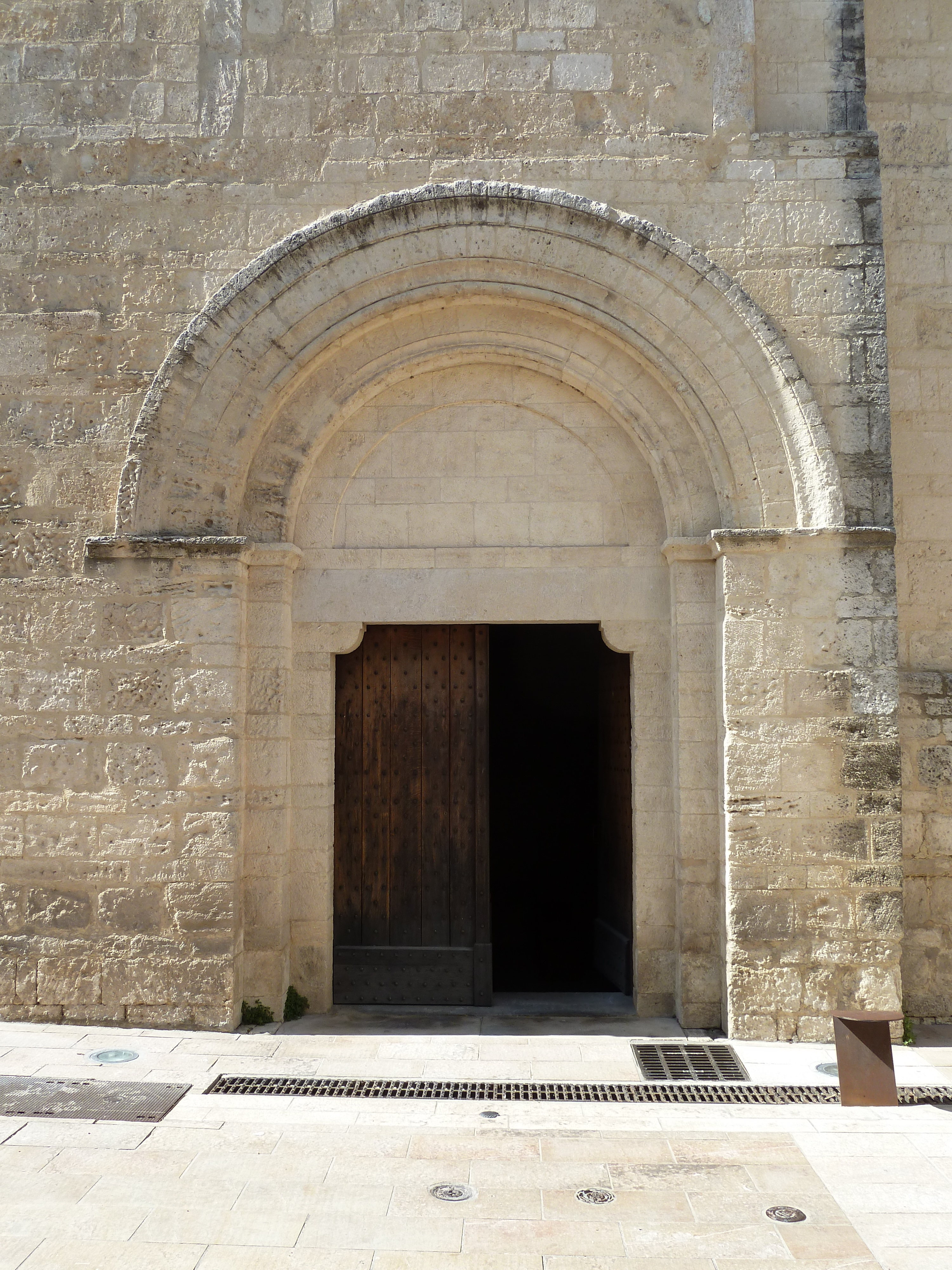 Church of Saint-Jean-Baptiste in Castelnau-le-Lez (vicinity of Montpellier, France). South side. Main portal.